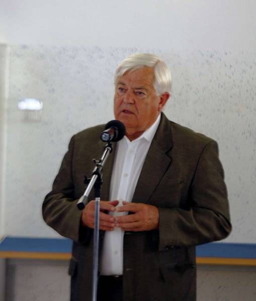 Milan Kučan in 2011